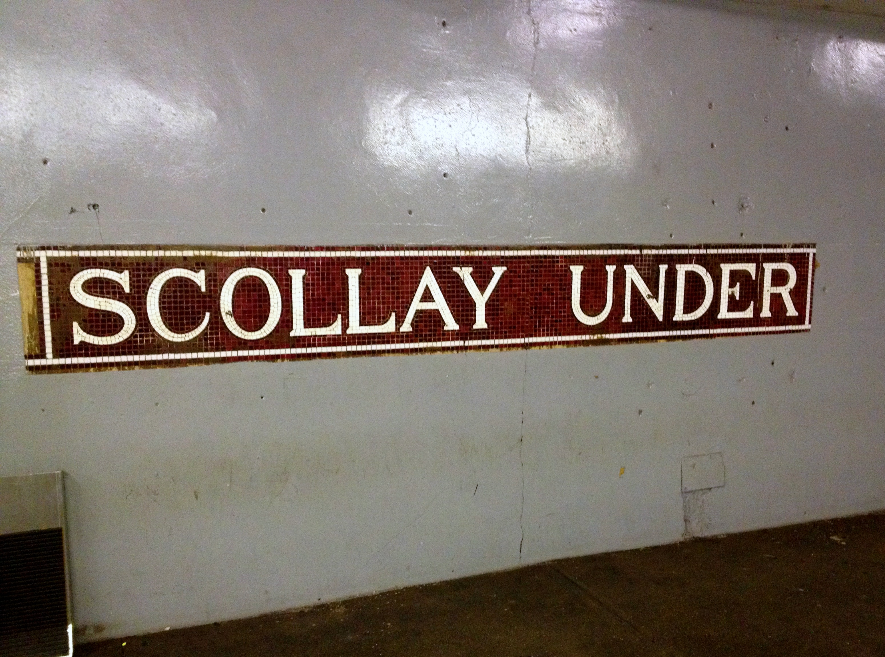 Historic "Scollay Under" sign on the eastbound Blue Line platform at Government Center station